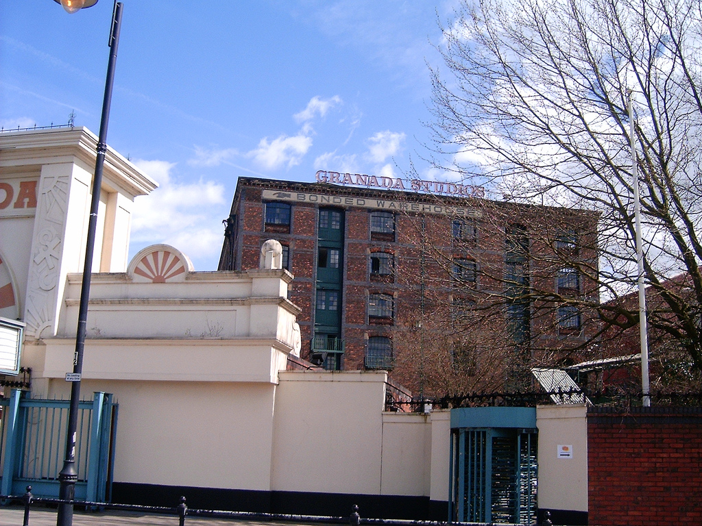 The bonded warehouse on the Granada TV site. It have sunmitted plans to move all of their Manchester operations into here.